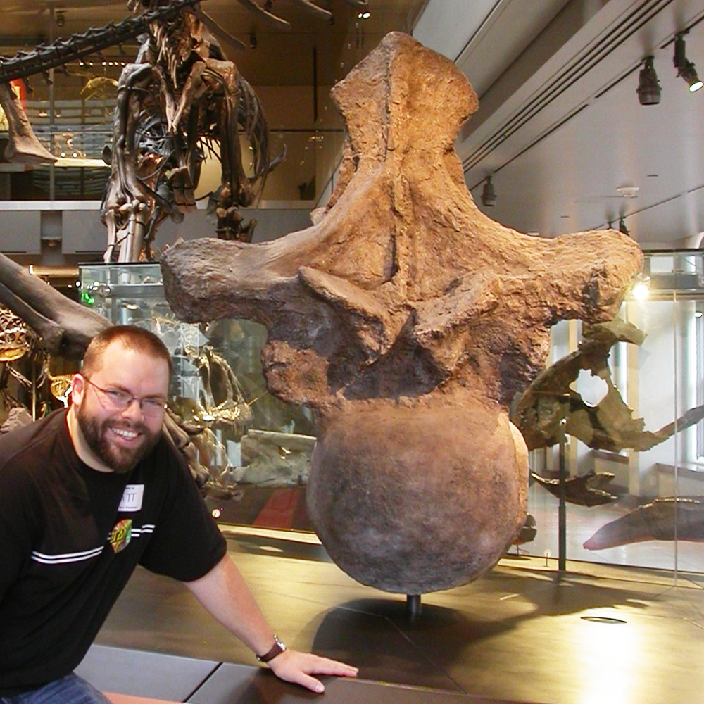 Argentinosaurus dorsal vertebra cast, with Matt Wedel. LACM